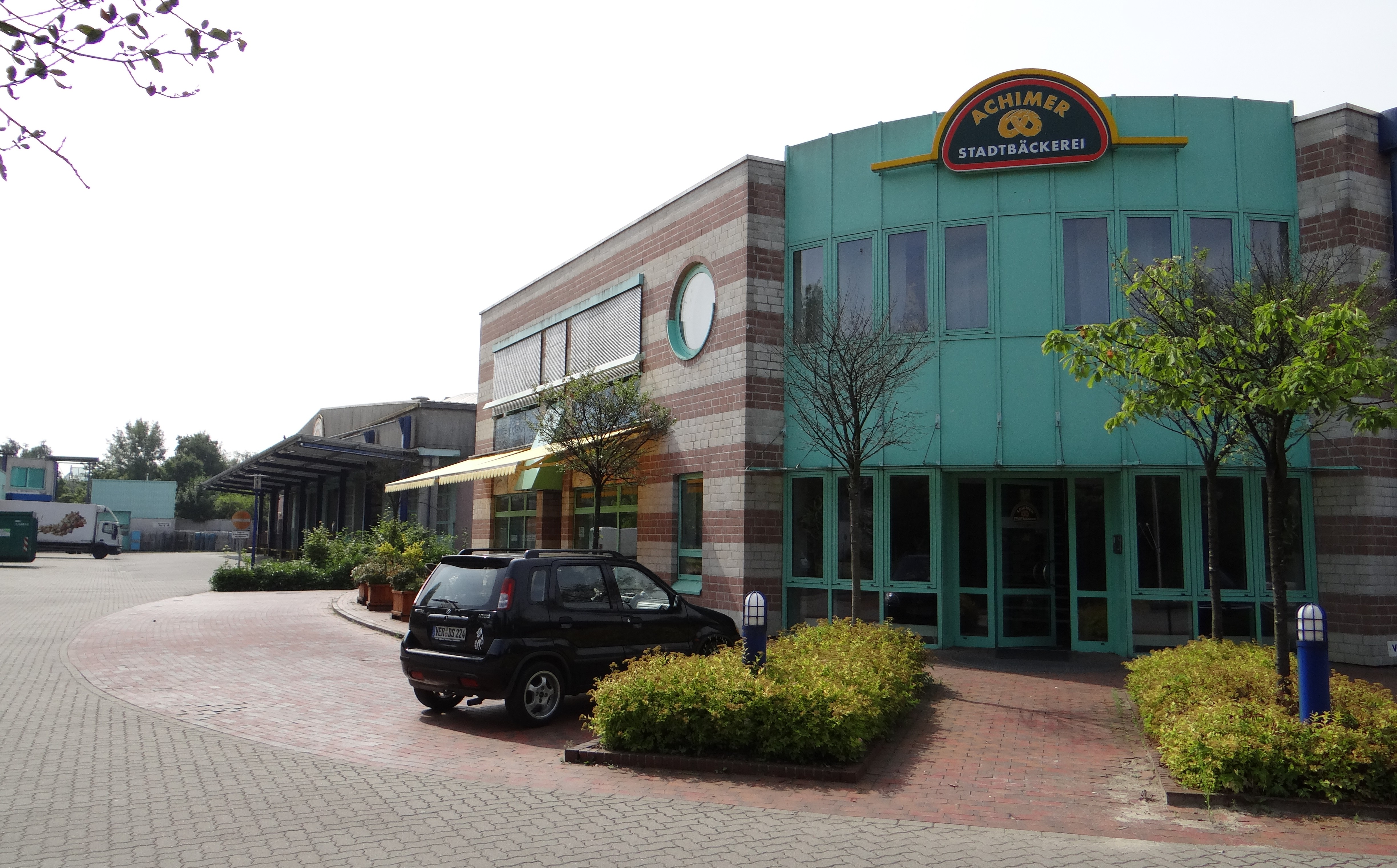 Bakery Achimer Stadtbäckerei in Achim near Bremen, Germany.